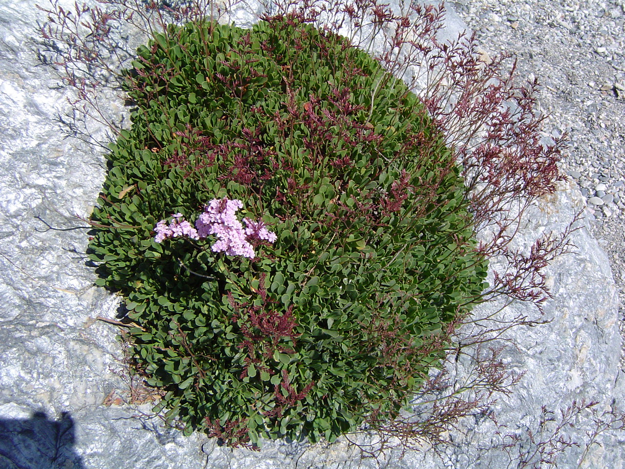 Limonium emarginatum, Ceuta, (Spain).